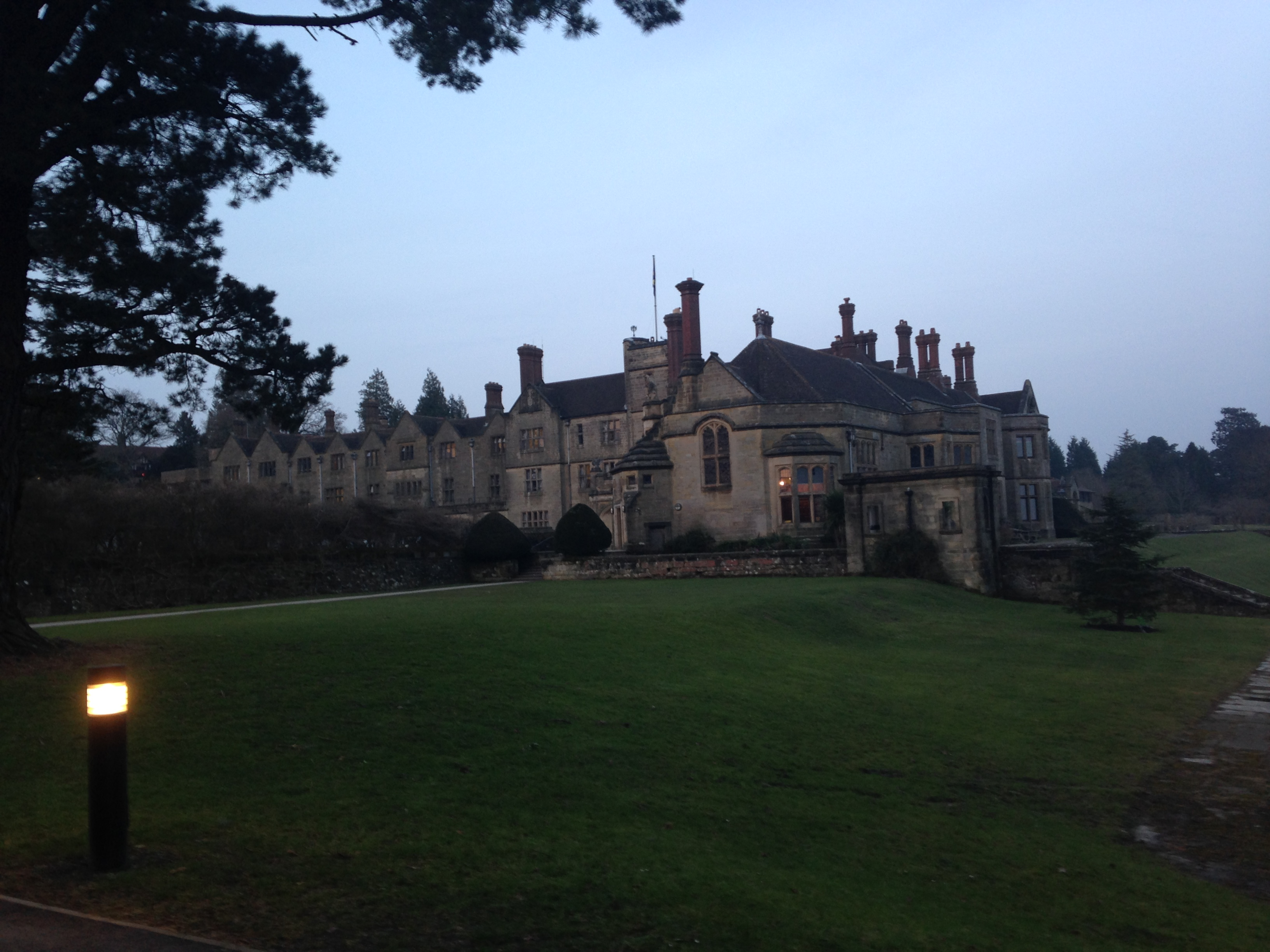 Worth School's iconic main building in West Sussex, England